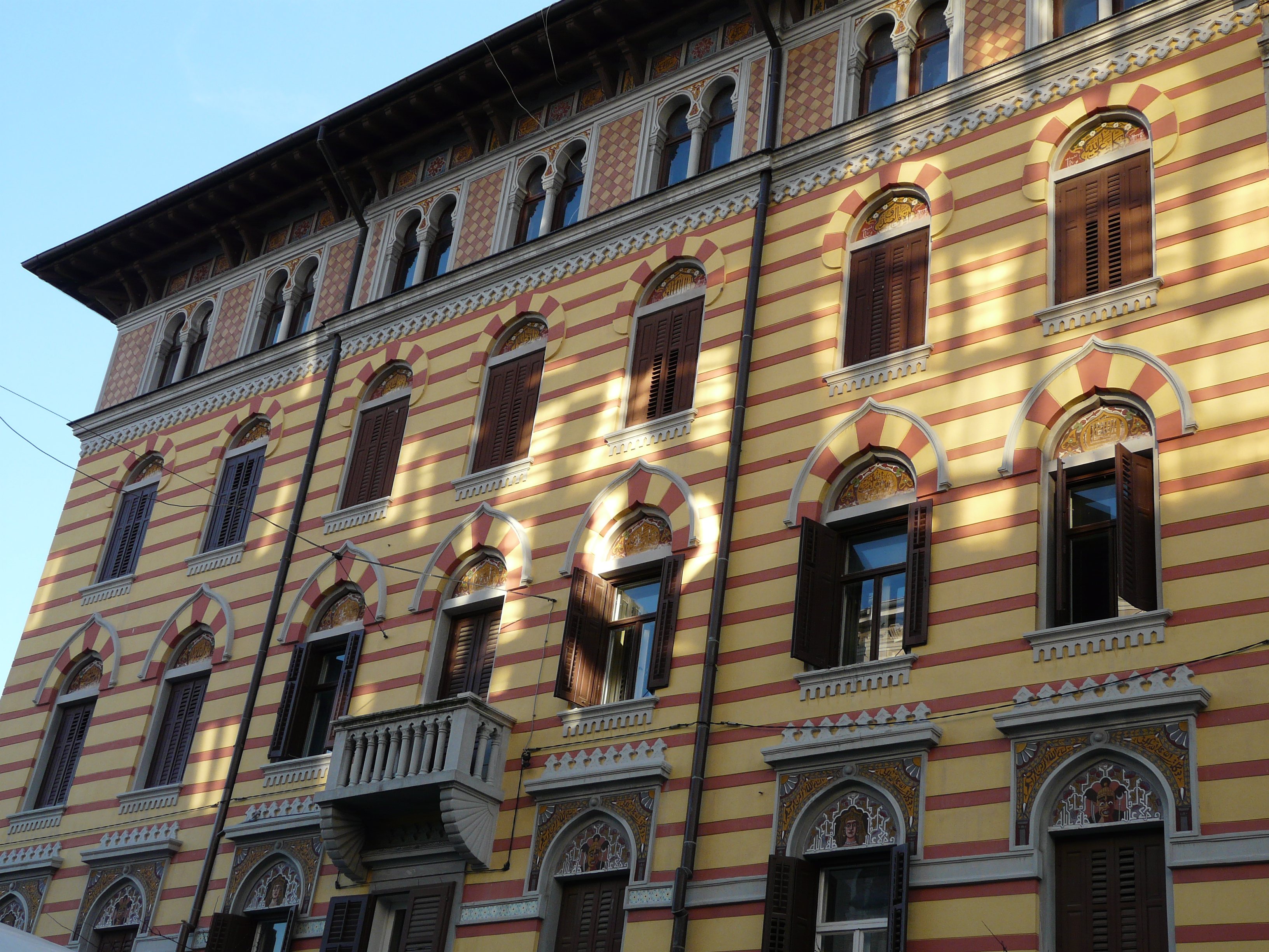 Windows of Turkish house in Rijeka, Croatia.